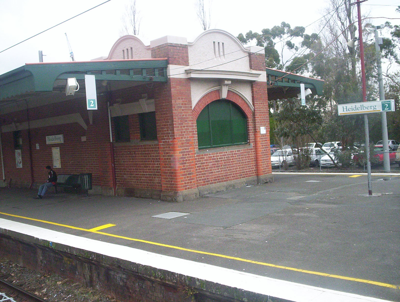 Heidelberg station, Melbourne.